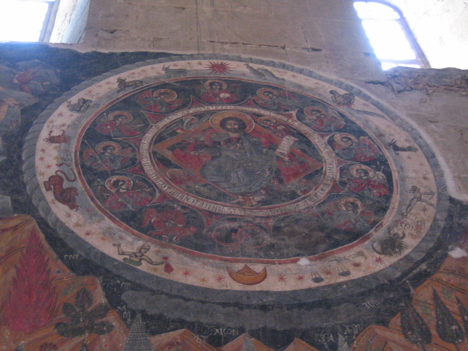 Zodiac and the Christ